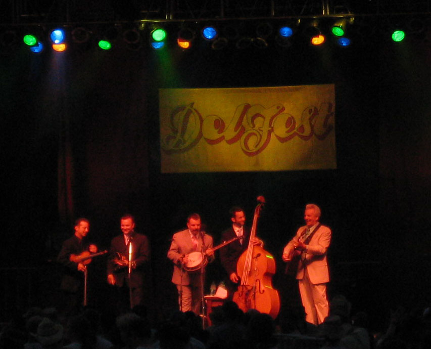 Del McCoury Band at 2nd annual DelFest, May 22, 2009 (Friday night set). Left to right: Jason Carter (fiddle), Ronnie McCoury (mandolin), Robbie McCoury (banjo), Alan Bartram (bass), Del McCoury (guitar).